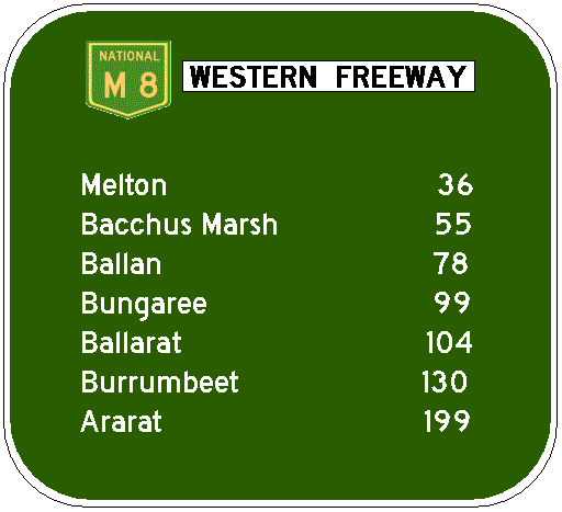 Distances (in km)